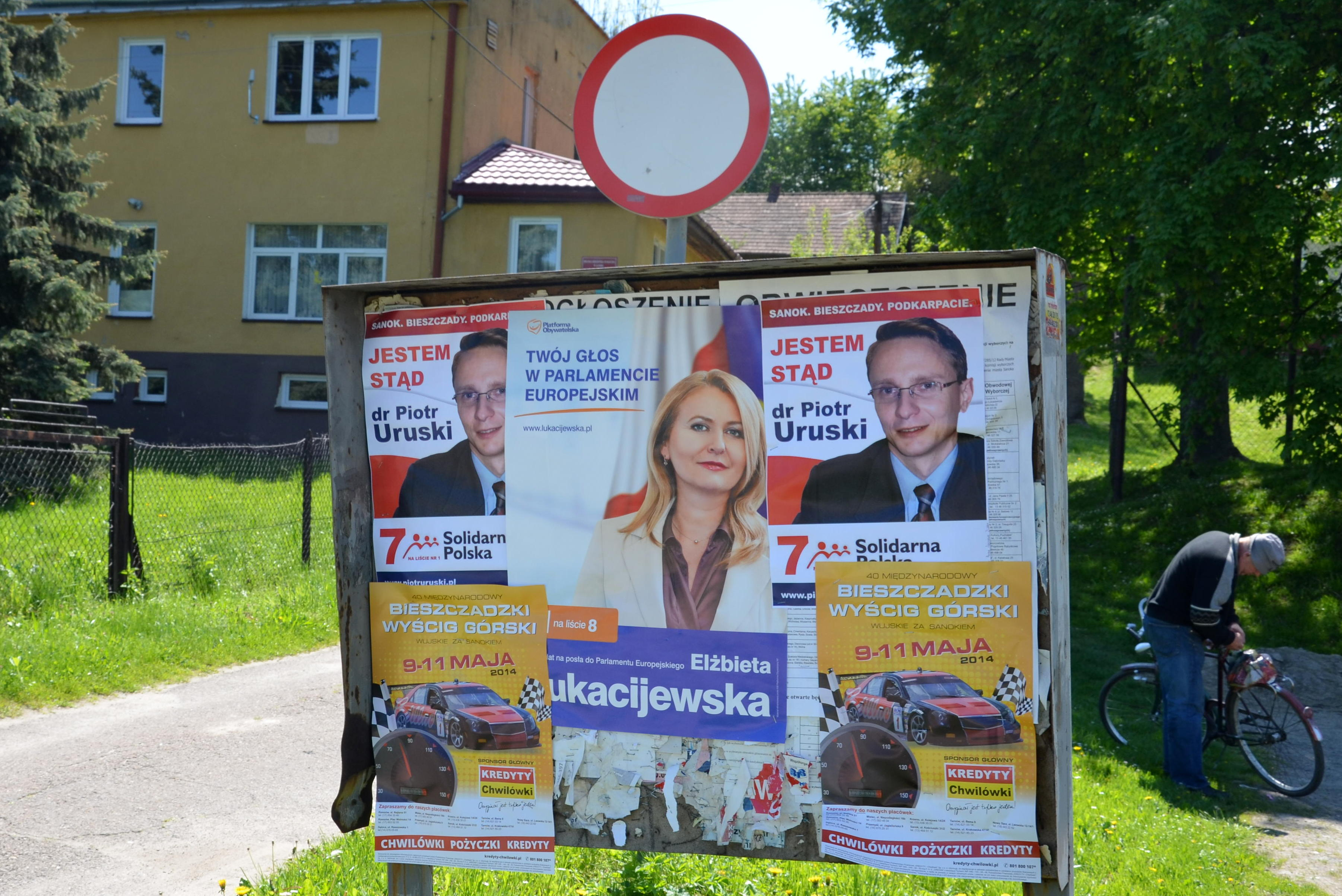 9th electoral district in Poland